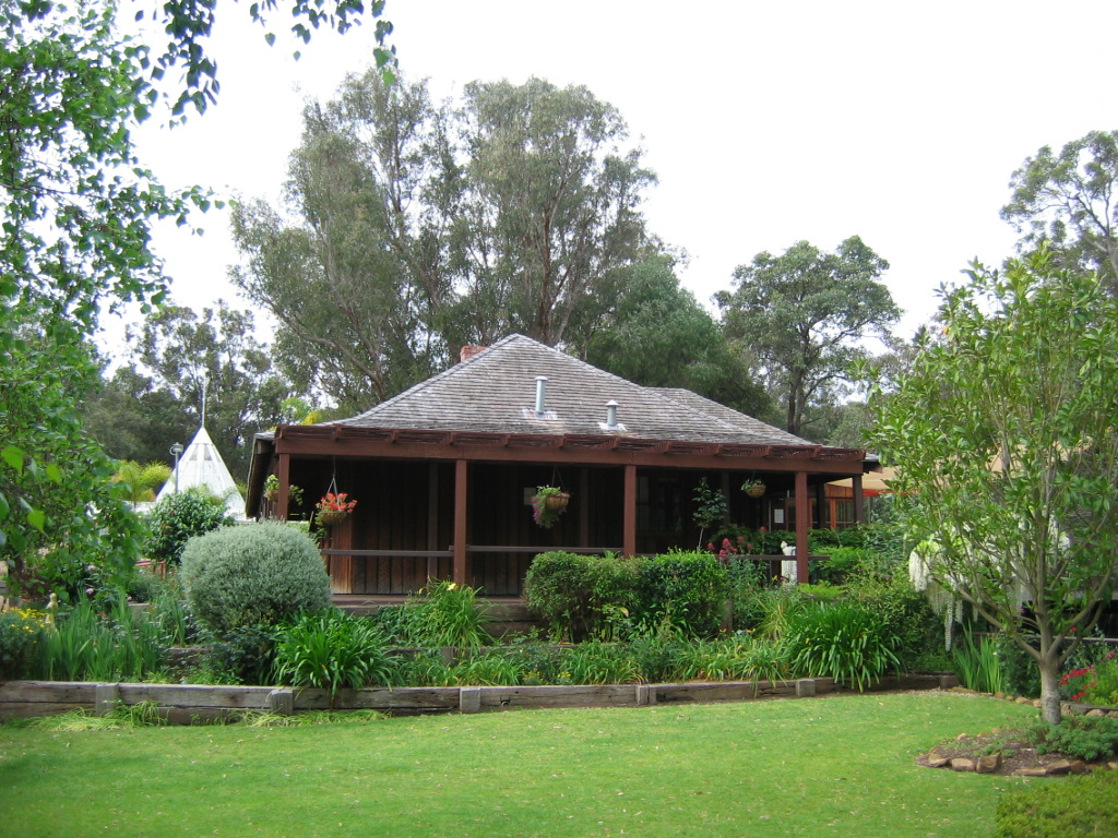 Stirling Cottage, a replica of a historic hut built by Governor Stirling in Harvey. May Gibbs lived there for a short time.